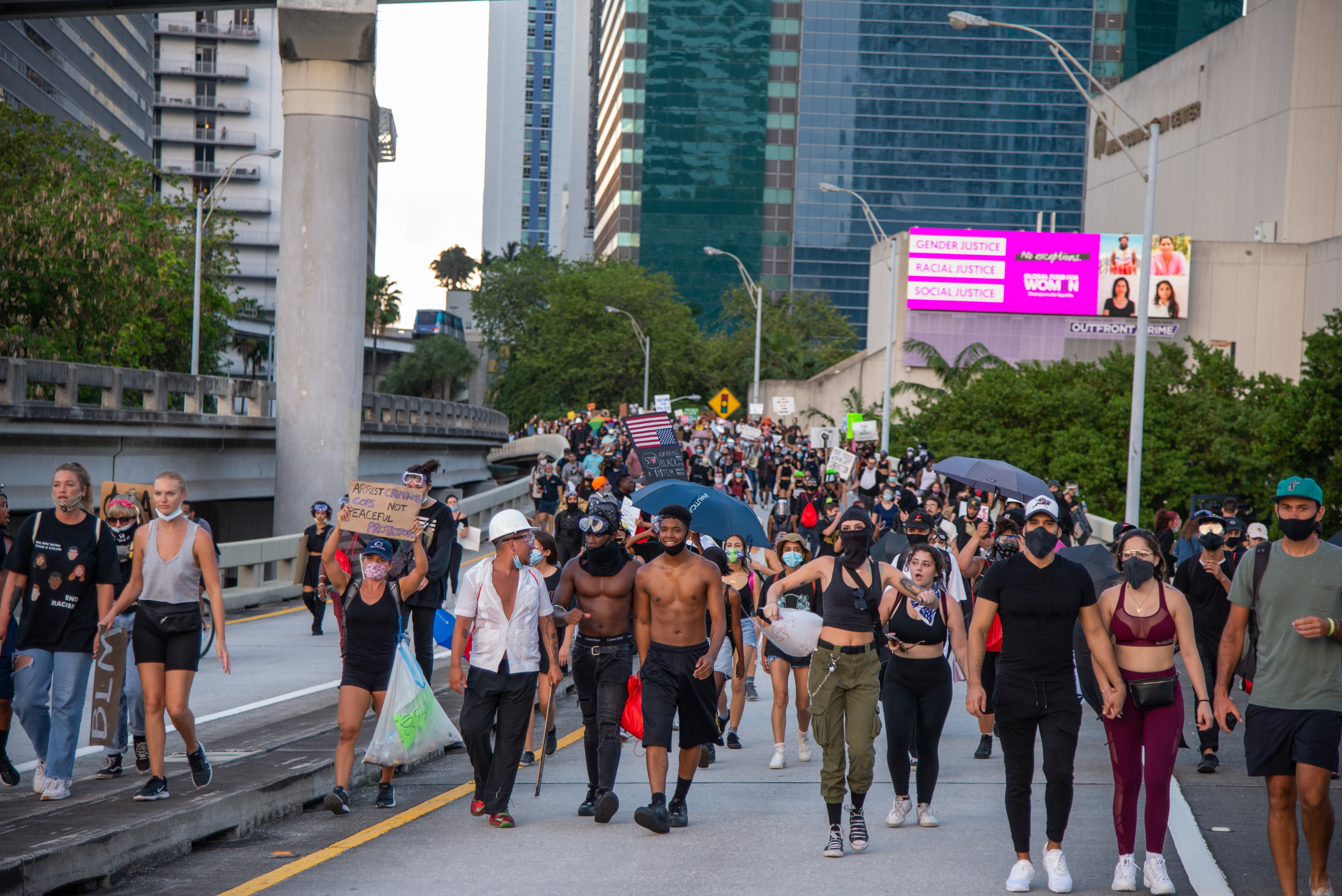 Protesters meet police on I-95 during the Downtown Miami protests on June 12